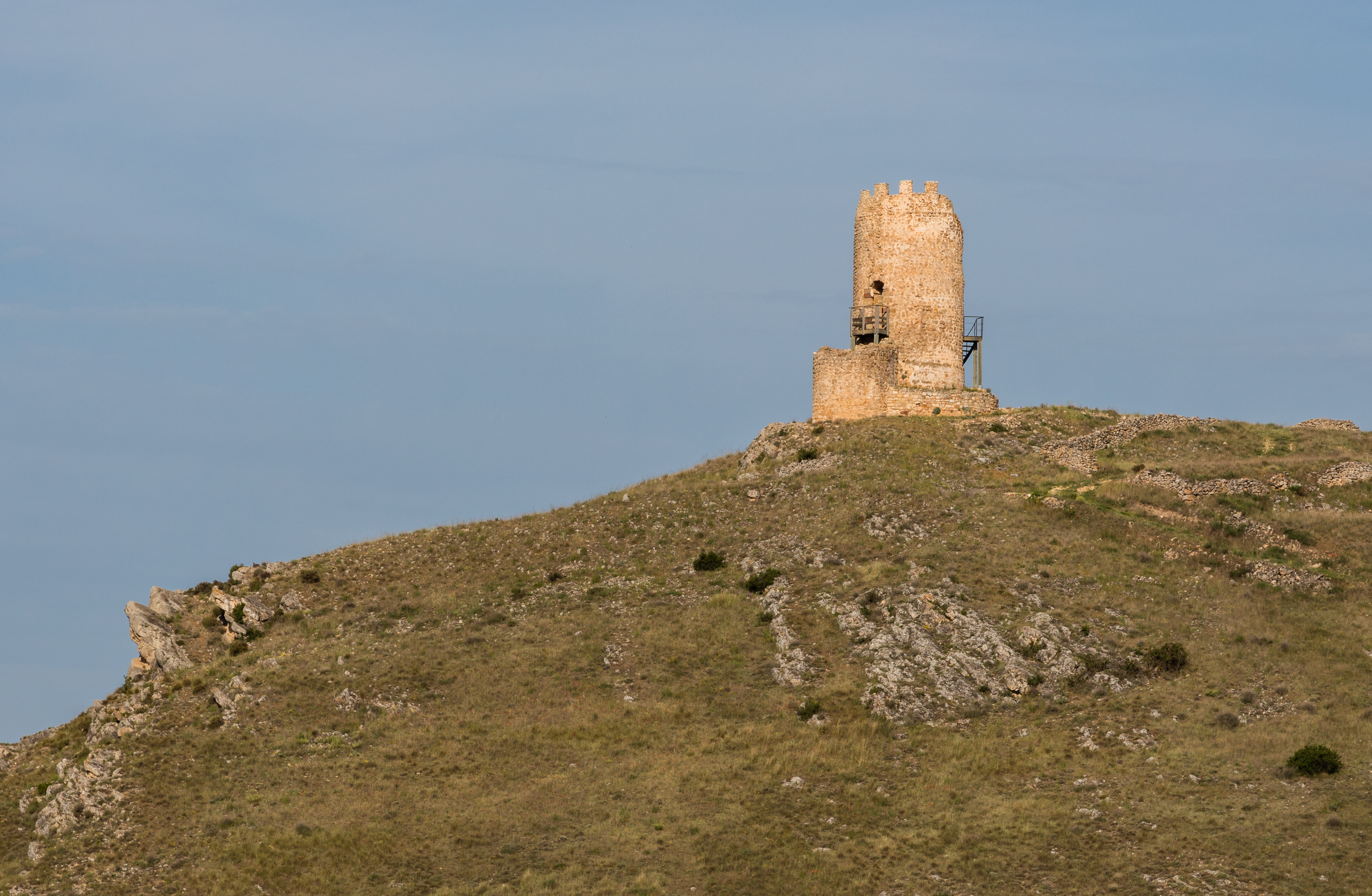 Hojaraca Watchtower, La Riba de Escalote, Soria, Spain